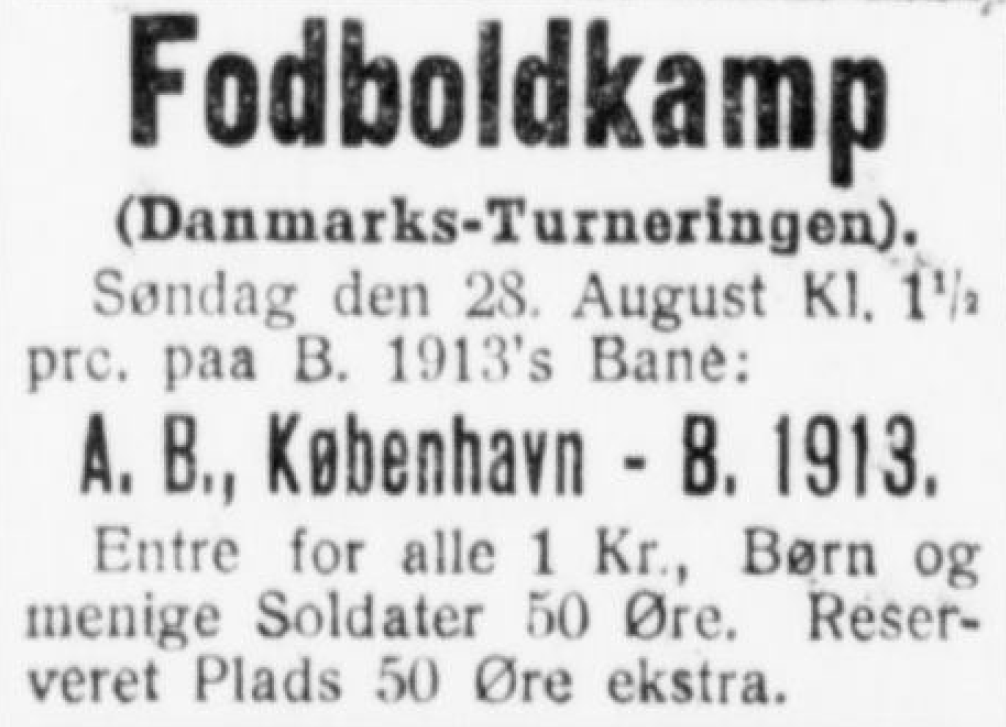 Advertisement for the one of four matches played on the first match day of 1927–28 Danmarksmesterskabsturneringen - The text reads: Fodboldkamp - (Danmarks-Tourneringen) - Søndag den 28 August Kl. 1½ pr. paa B. 1913's Bane - A.B.København-B.1913 - Entré for alle 1 Kr. Børn og menige Soldater 50 Øre. Reserveret Plads 50 Øre ekstra.